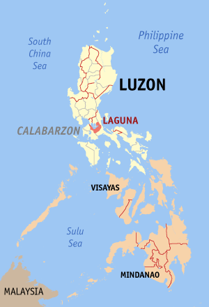 Map of the Philippines showing the location of Laguna